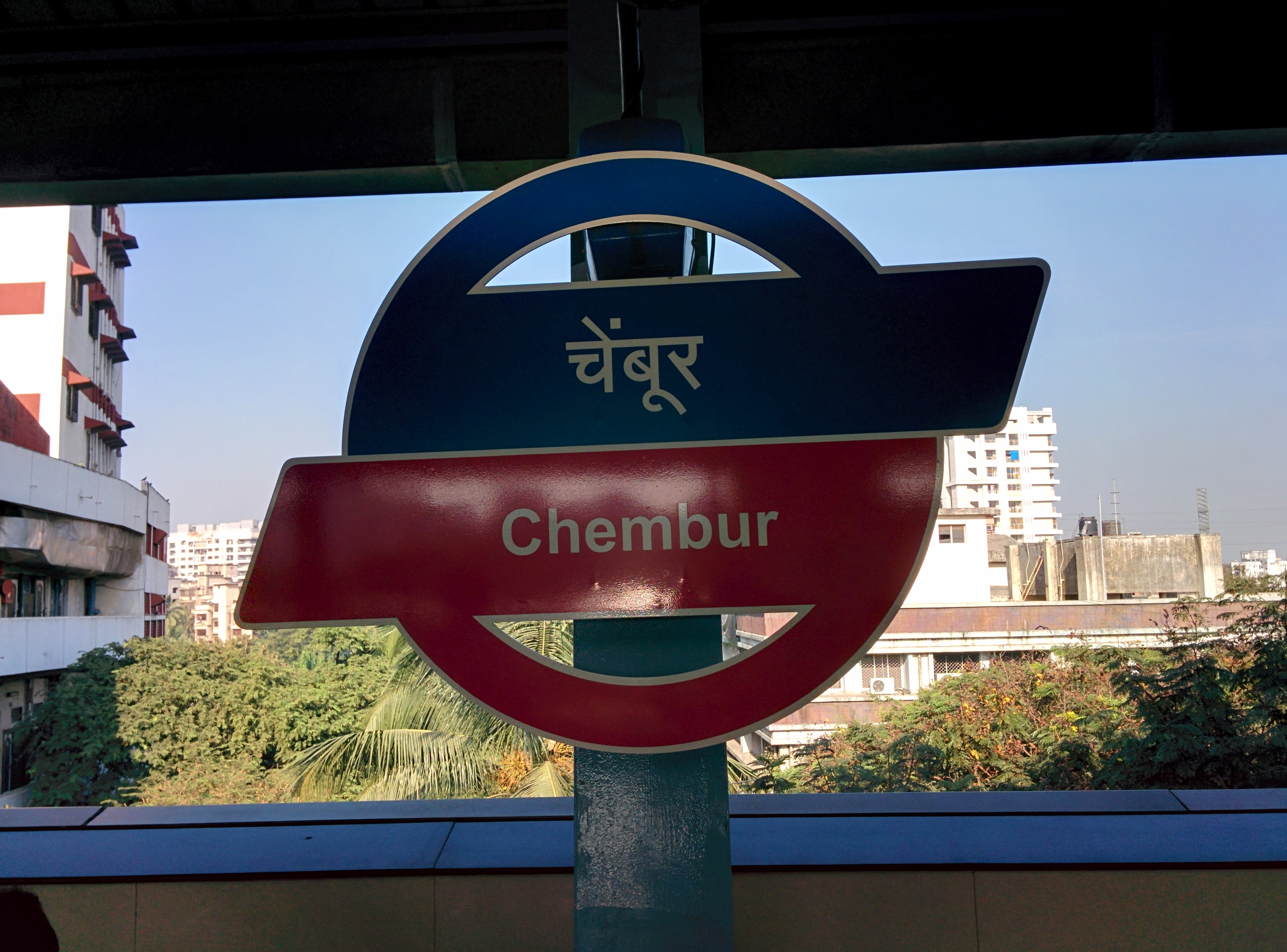 Chembur monorail stationboard